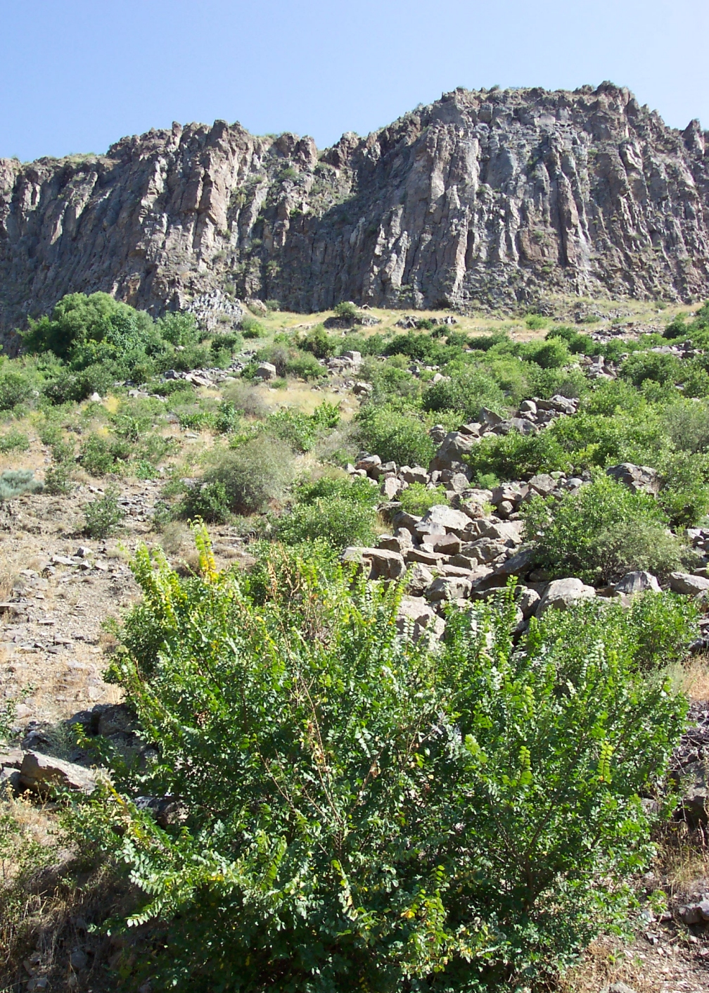 Typical Armenian terrain.